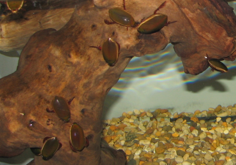 Giant Predaceous Diving Beetle (Cybister ellipticus)